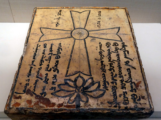 Nestorian ceramic epitaph dating from the Yuan dynasty, 46.5 cm long, 39 cm wide and 6 cm thick, unearthed in the Songshan district of Chifeng, Inner Mongolia. In the middle of the epitaph there is a cross at the top of this cross, on each side can be seen a line of Syriac writing, on the bottom, on each side four lines of Uyghur Mongol writing. A lotus is located in the middle, below the cross.